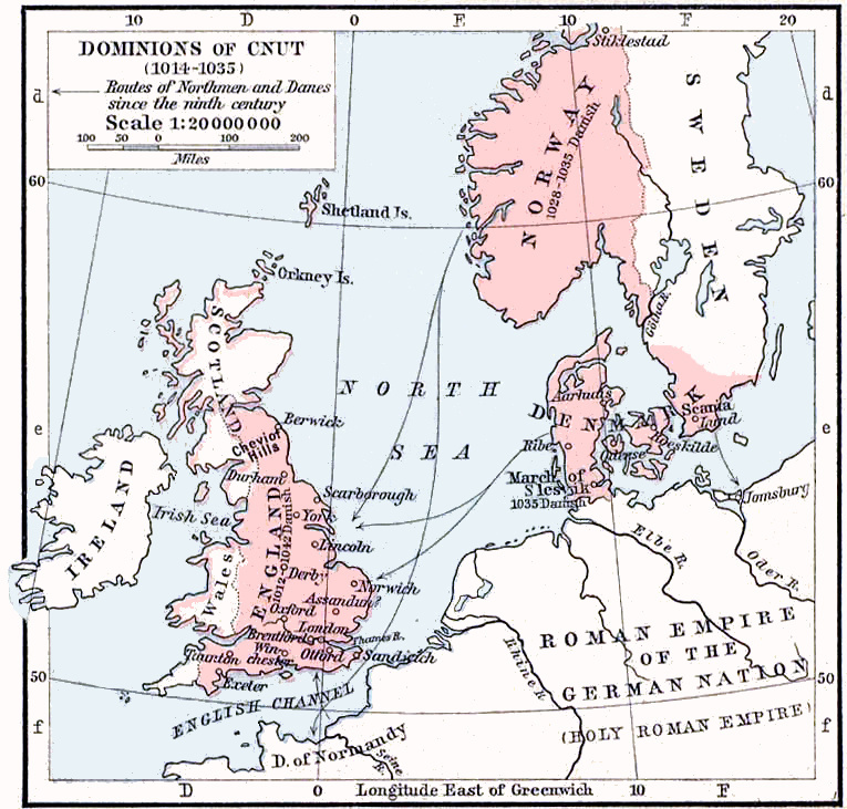 Dominions of Canute the Great, 1014-1035.